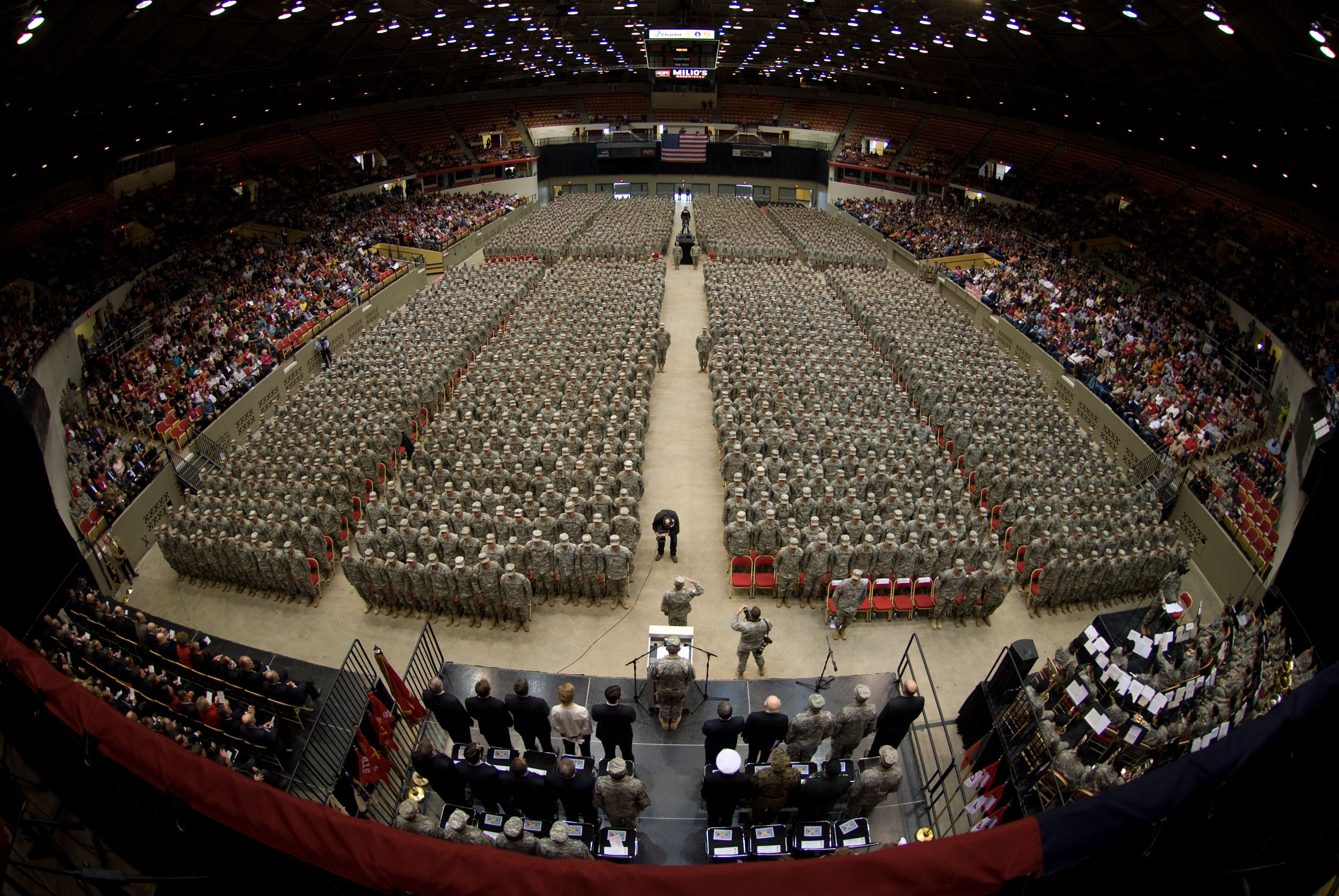 32nd Brigade Command Sgt. Maj. Ed Hansen, on floor in front of podium, accepts reports from battalion command sergeants major as the brigade forms at the start of the Feb. 17 send-off ceremony at the Dane County Veterans Memorial Coliseum, Madison, Wis. Family members and public officials bade farewell to some 3,200 members of the 32nd Infantry Brigade Combat Team and augmenting units, Wisconsin Army National Guard, in the ceremony. The unit is bound for pre-deployment training at Fort Bliss, Texas, followed by a deployment of approximately 10 months for Operation Iraqi Freedom. Wisconsin Department of Military Affairs photo by Larry Sommers. Wisconsin to deploy largest force since WWII